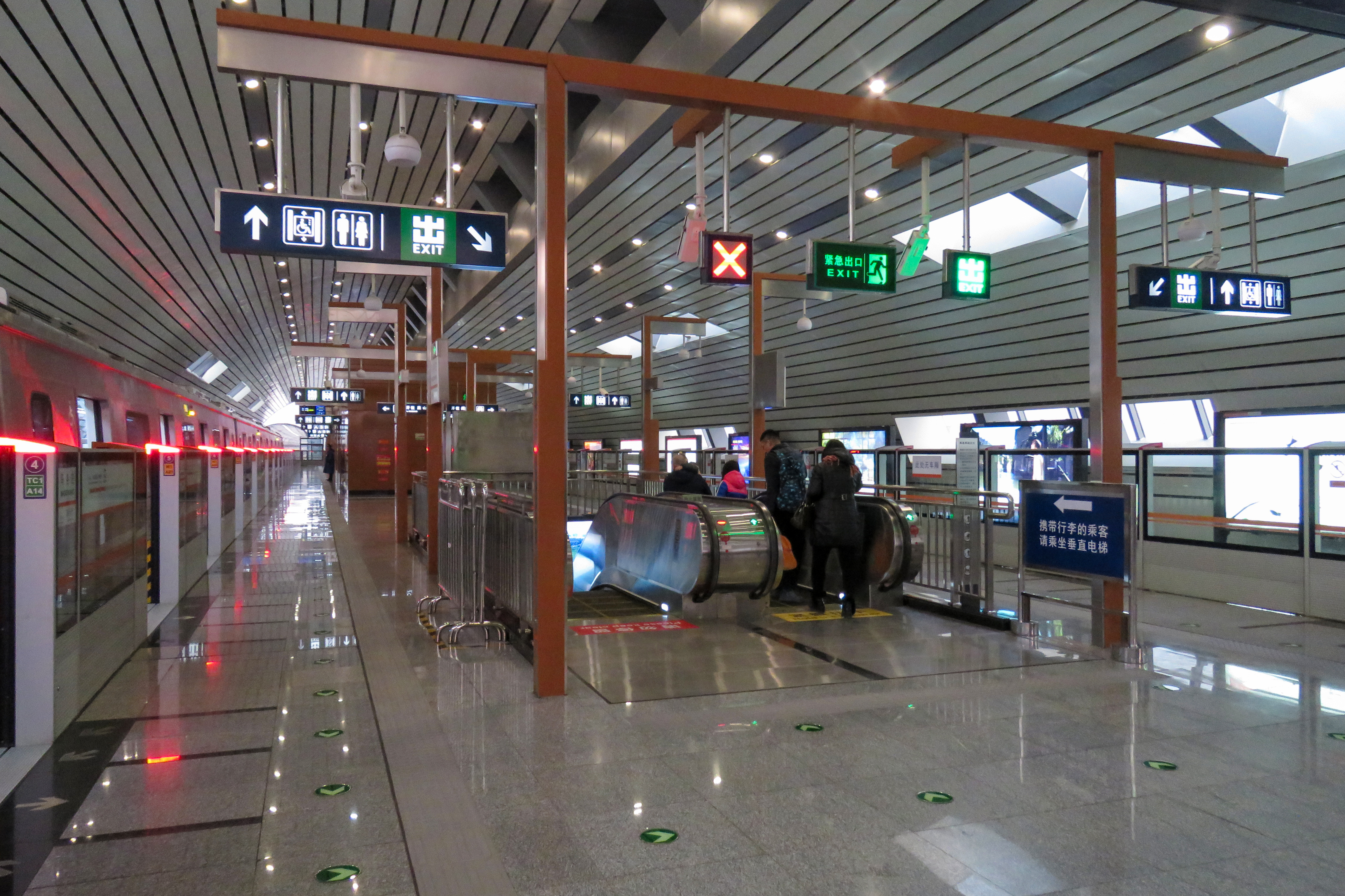 Another torii, this time brown.